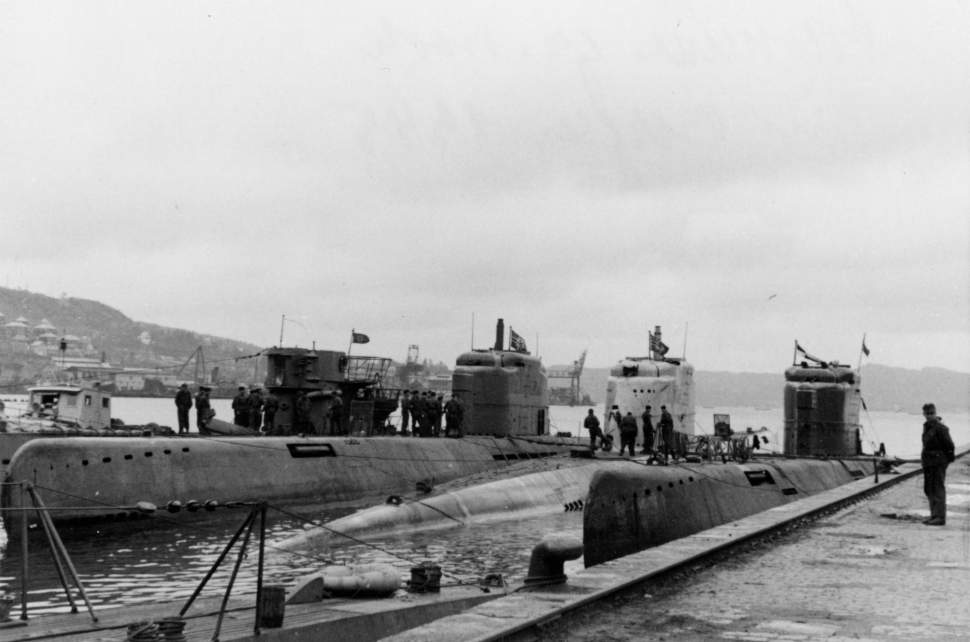 Three Elektroboat Type XXI U-Boat in Norway, Bergen, 1945. In the center is U-2511, one of the only Type XXI to conduct a war patrol.